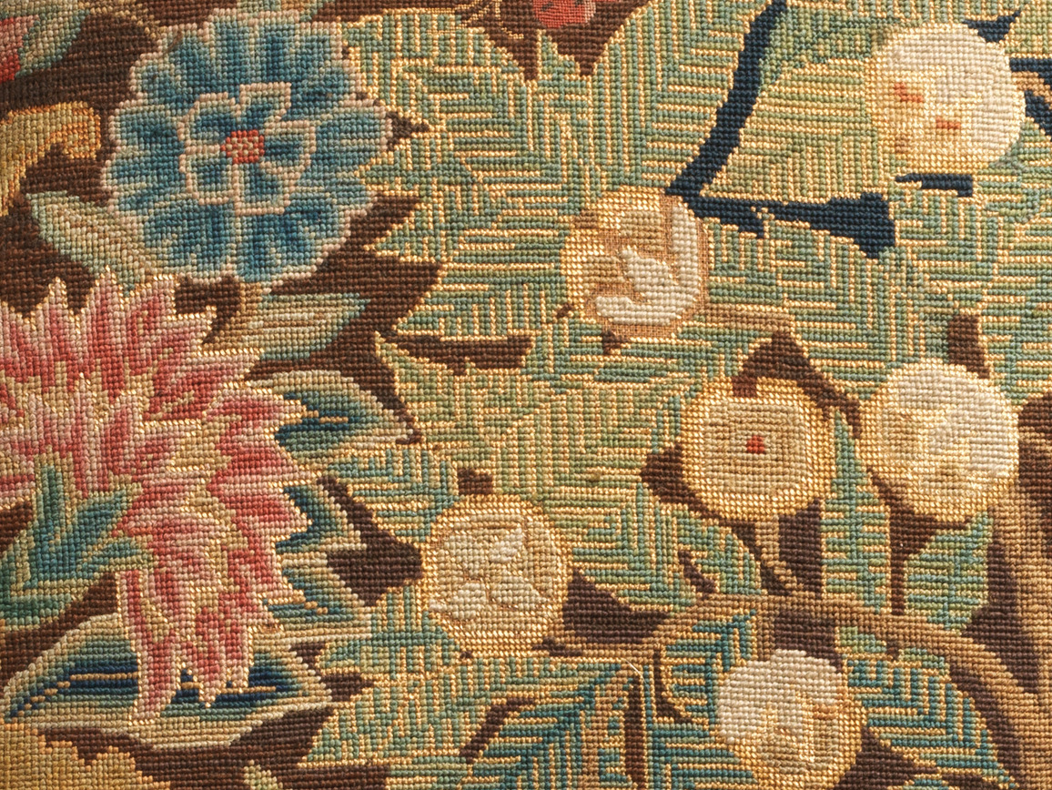 British or Irish; Settee; Woodwork-Furniture